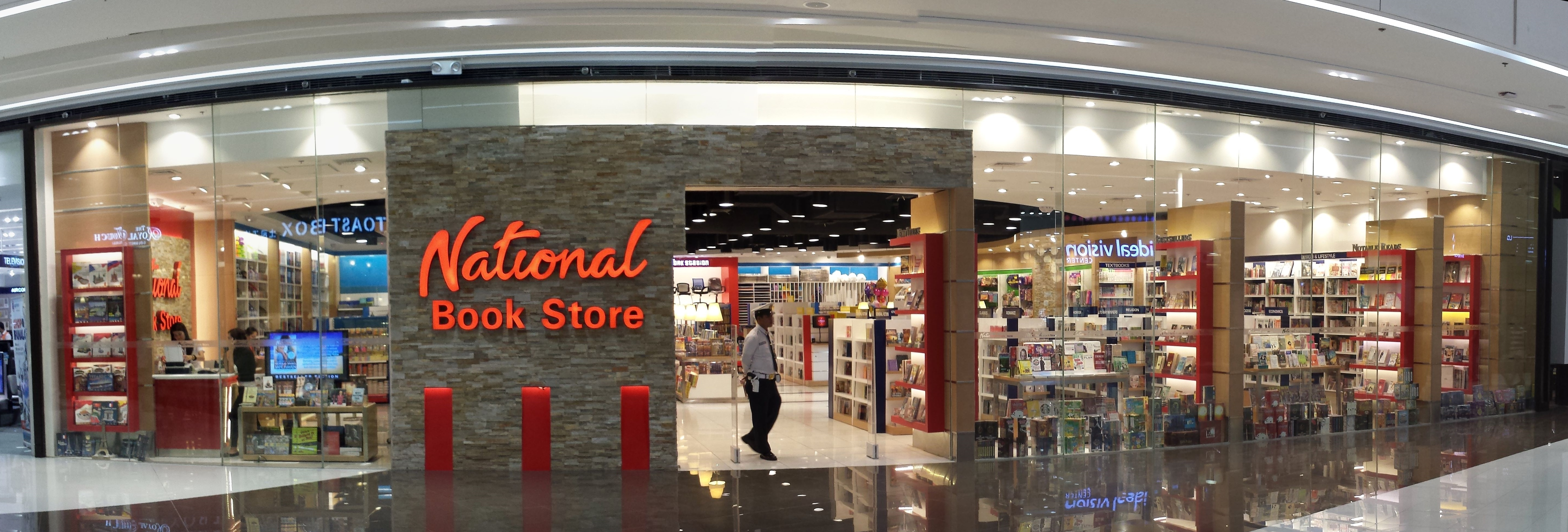 A National Book Store in the SM Aura Premier mall in Bonifacio Global City, Metro Manila, Philippines.